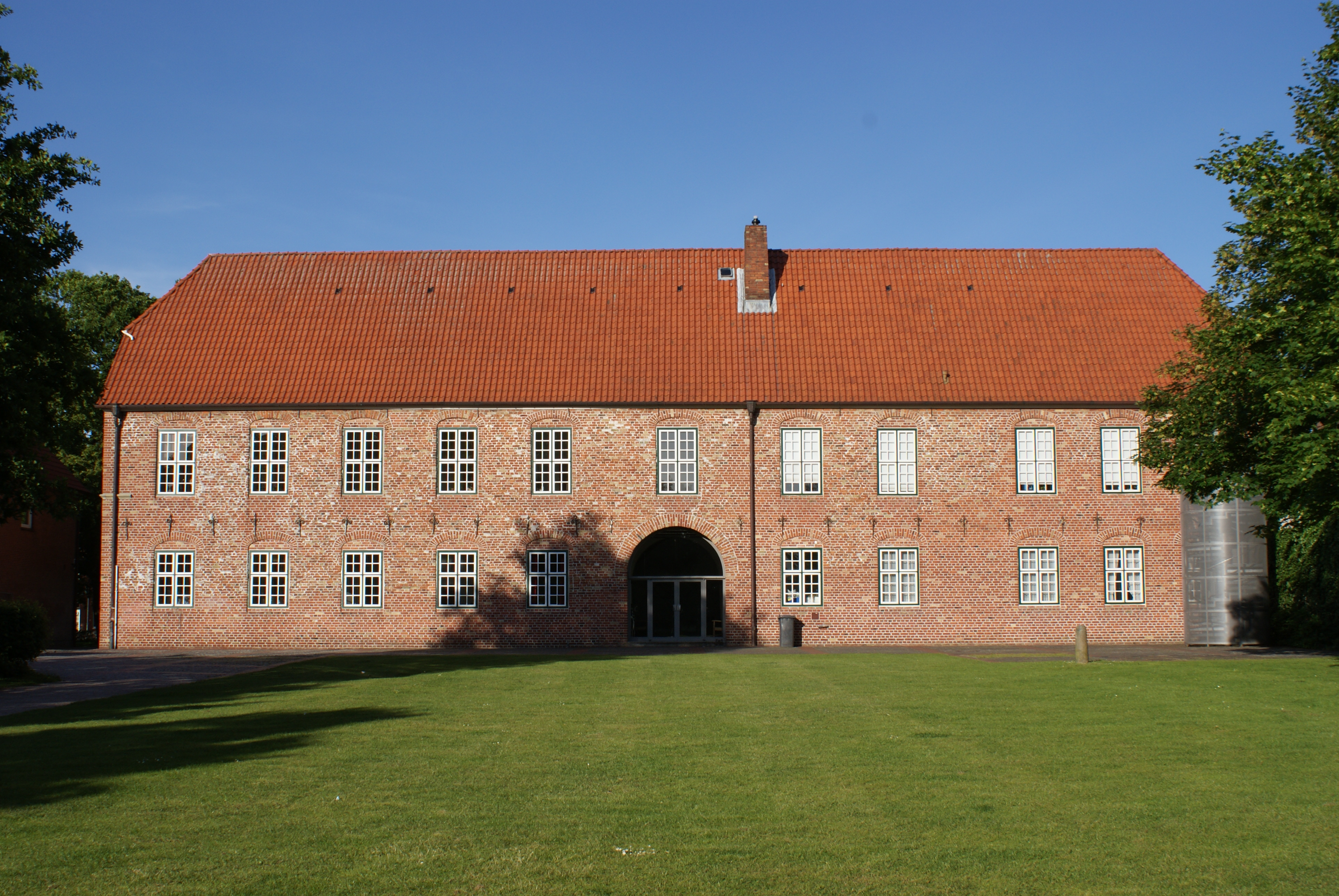 The formerly gatehouse of the destroyed Castle of Bramstedt is now known as "Bramstedt Castle"